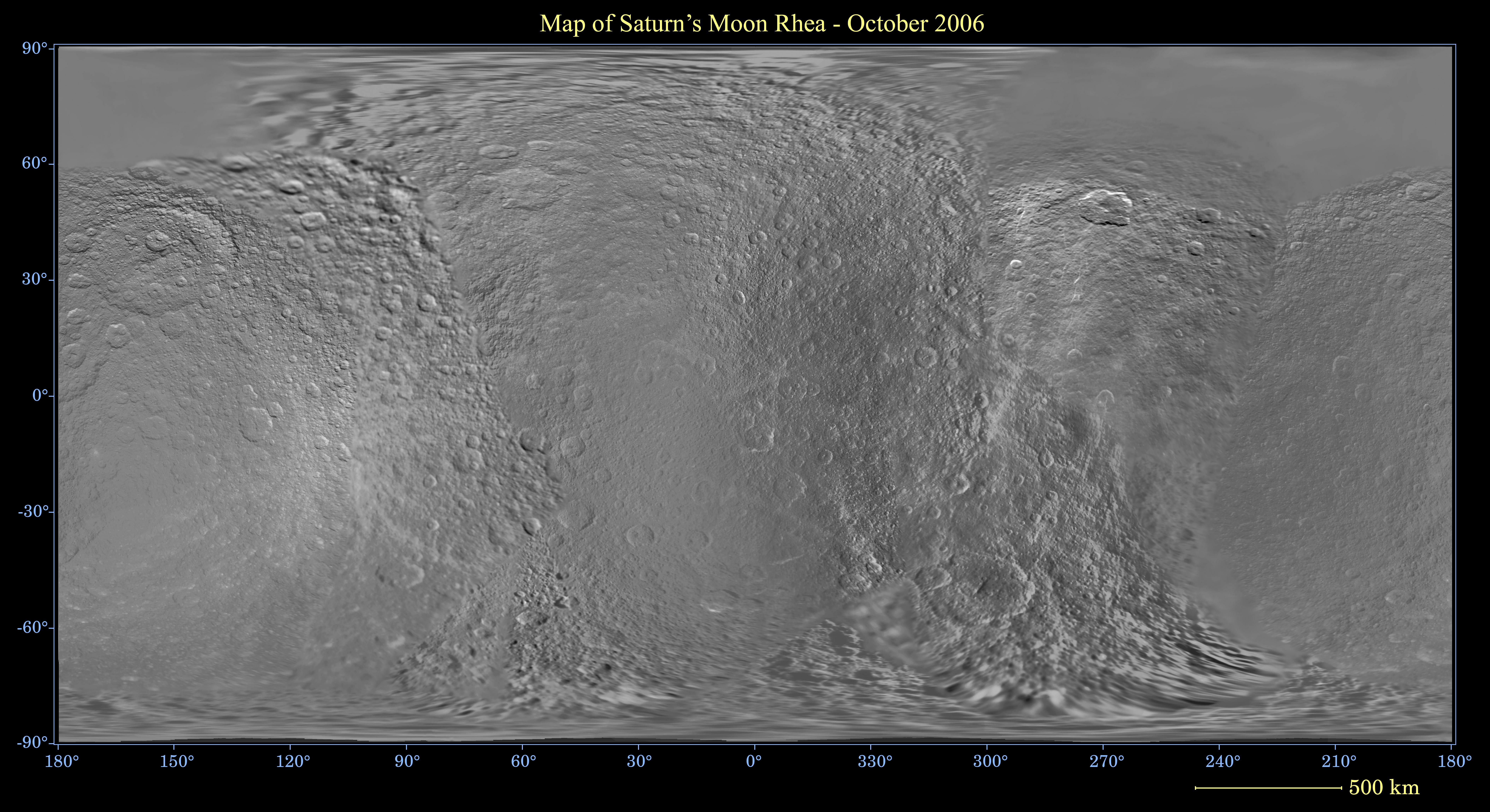 map of Rhea, modest scale